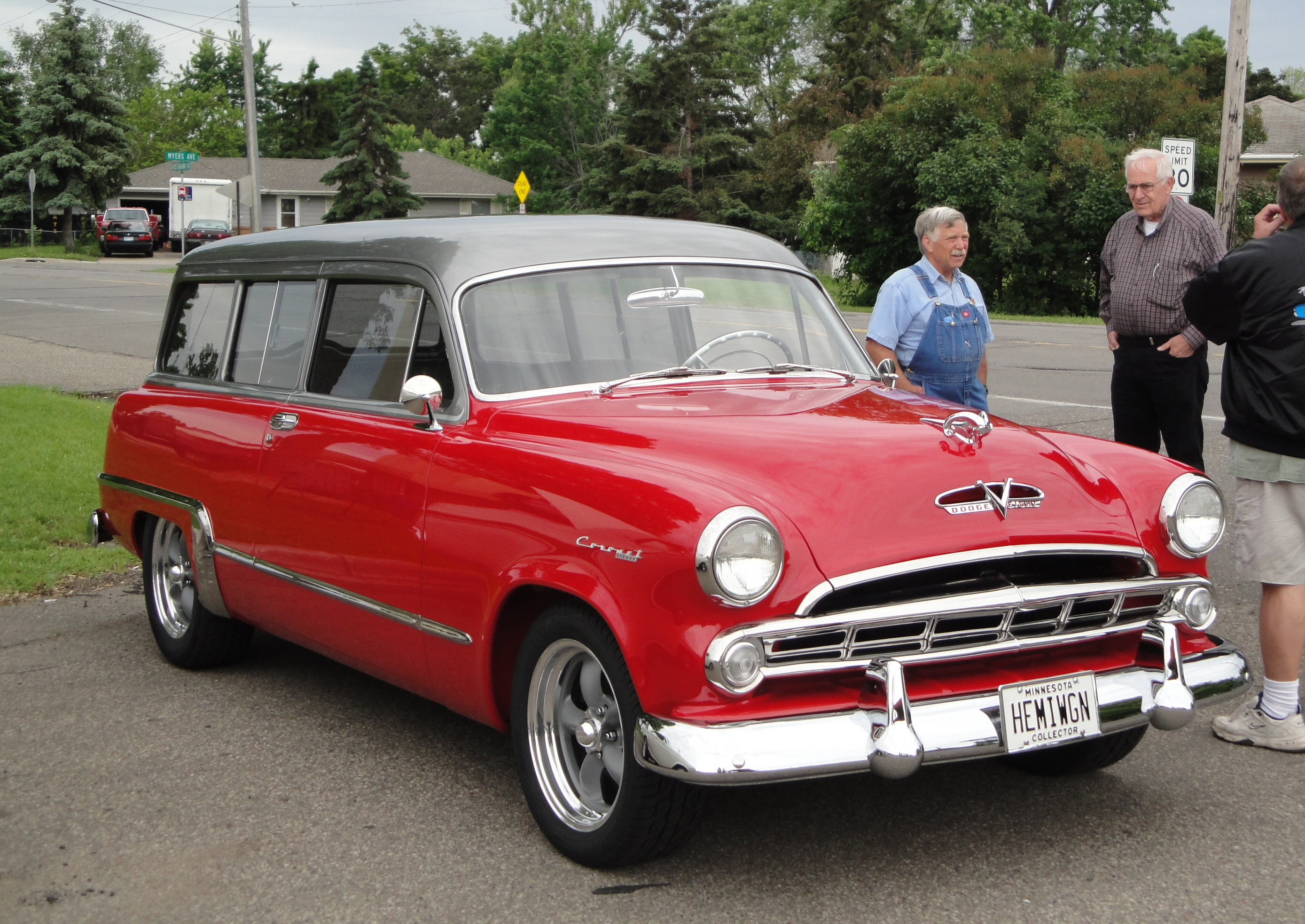 W.P.C. Restorers Club 10,000 Lakes Region Car Show June 12, 2011 Wagner's Drive in